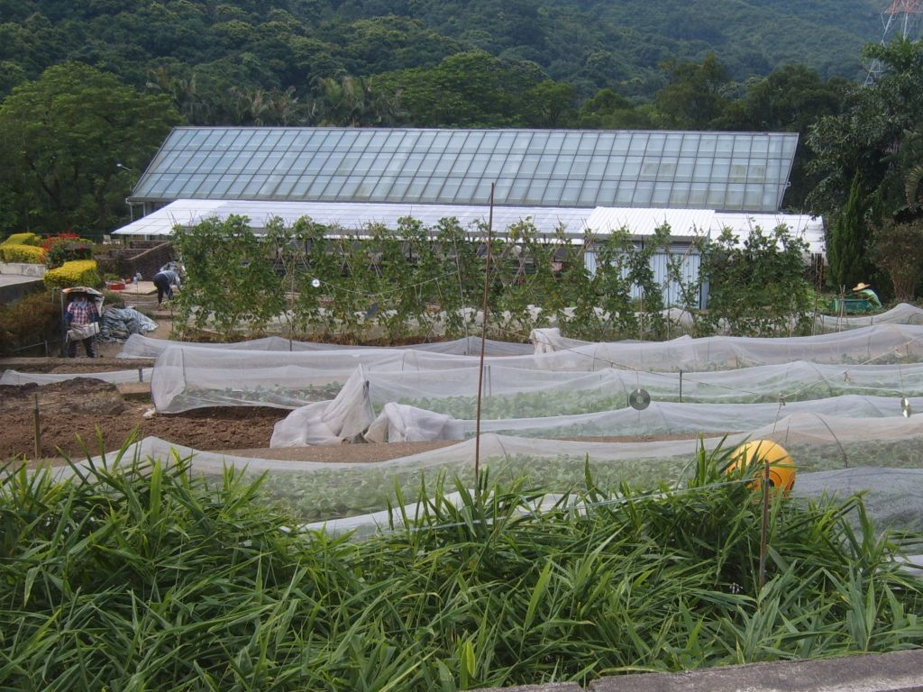 Kadoorie Farm and Botanic Garden, Lam Tsuen, Tai Po, Hong Kong. Photo taken by myself (User:Sl) on 23 September 2006. 香港大埔林村嘉道理農場暨植物園有機菜園。